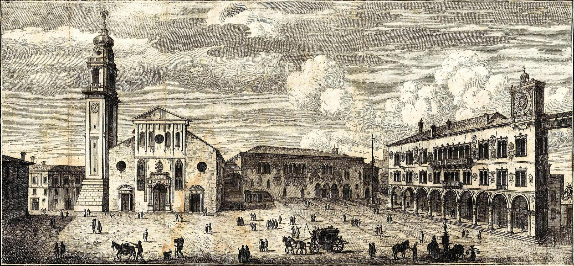 Old print of Belluno cathedral square in 1750 by Thomas Salmon